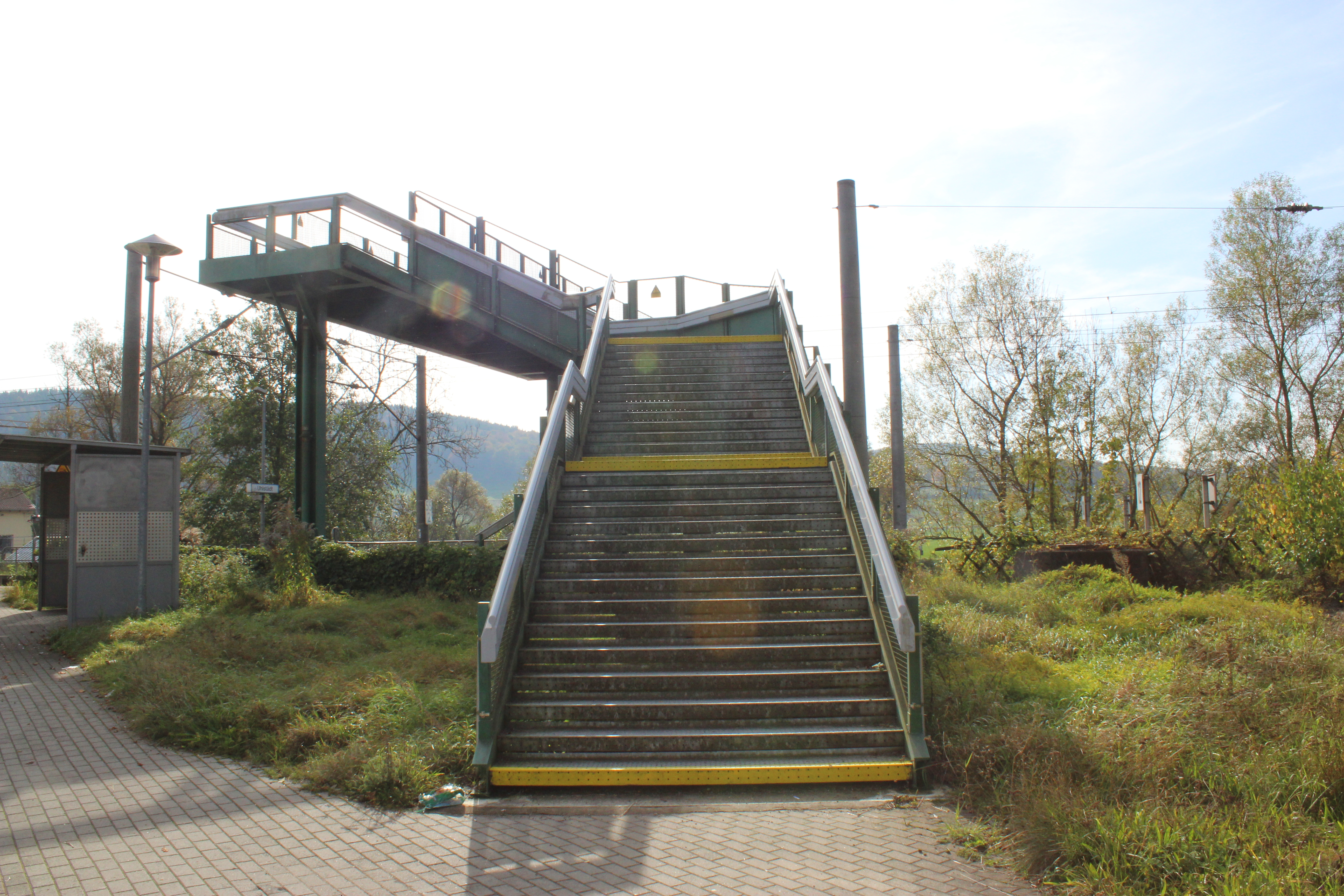 train station Uhlstädt, overpass